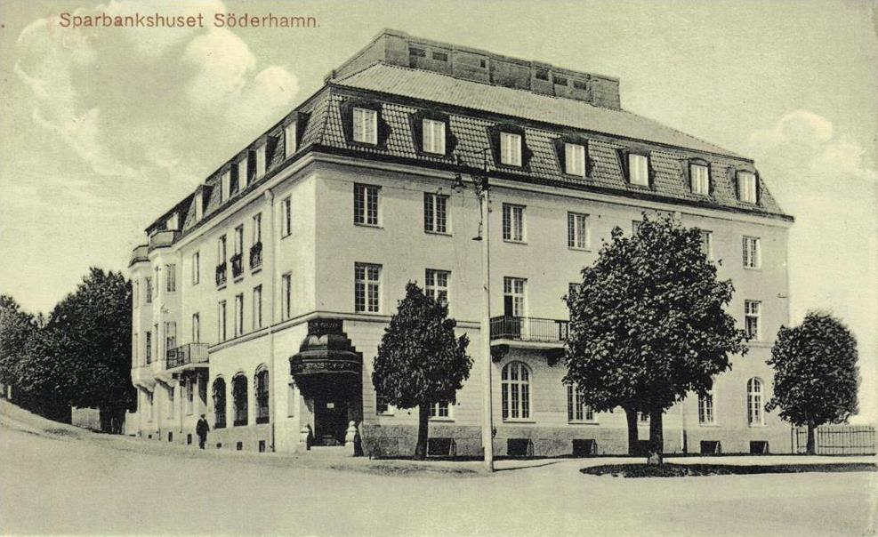 Söderhamns sparbank, Söderhamn, Sweden